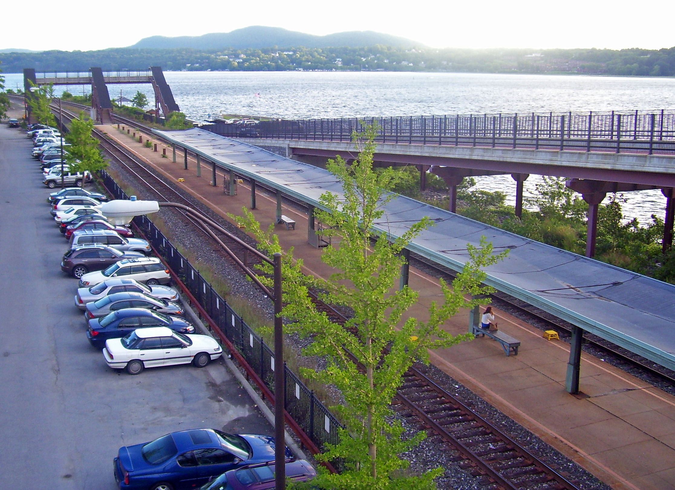 Platforms of Rhinecliff train station, Rhinecliff, NY, USA, with Hudson River in background